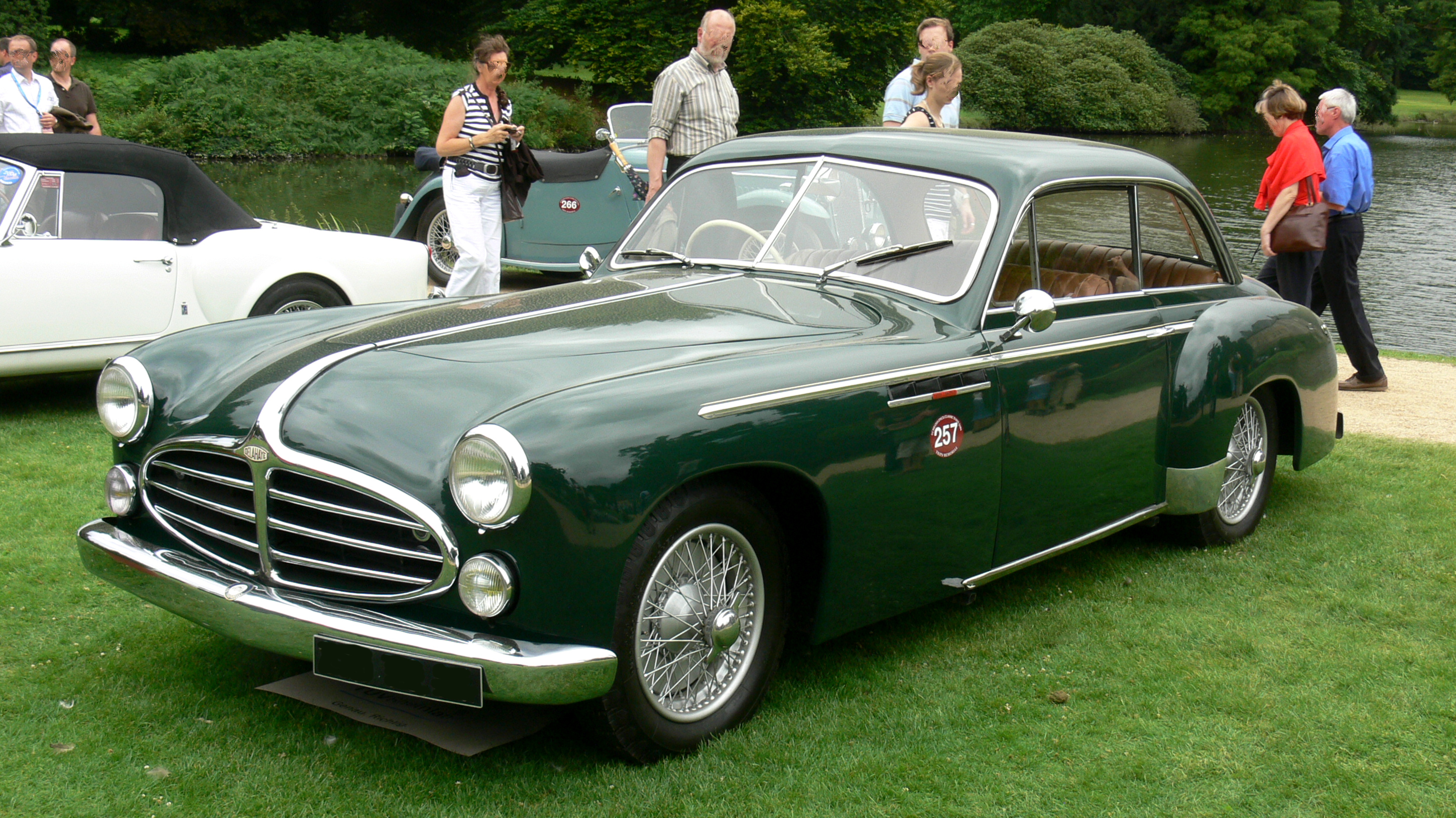 Delahaye 235 MS Coupé (1953) at Dyck Castle, Germany